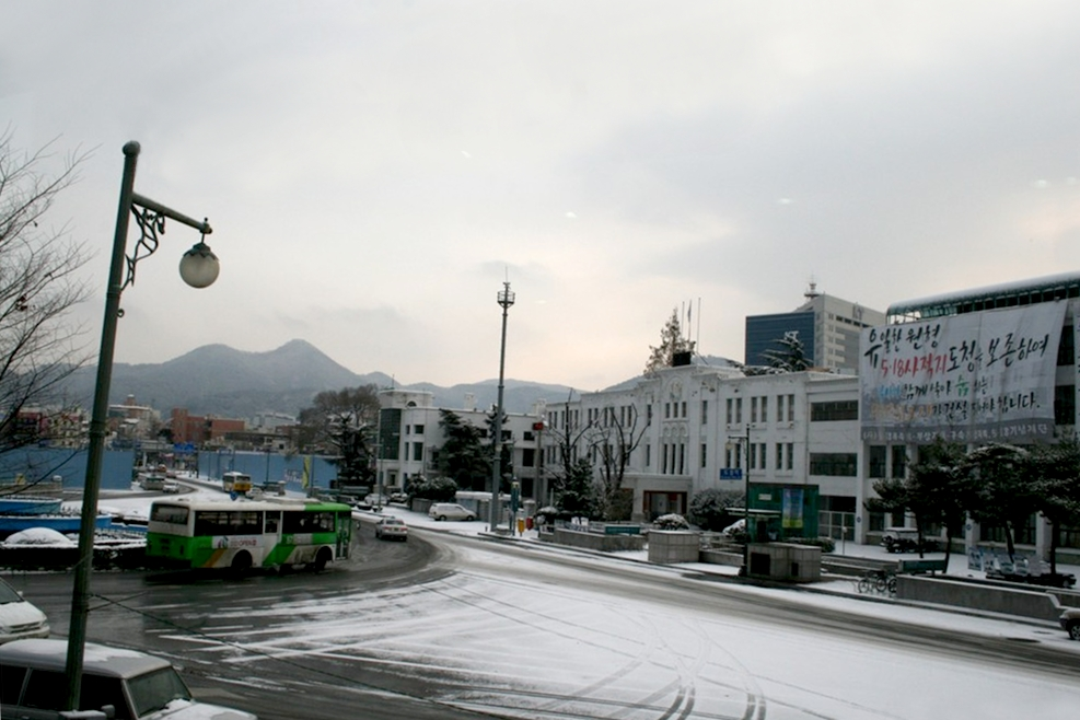 A view of the former South Jeolla Provincial Office located in the city of Gwangju, South Korea. Site of 1980 Gwangju citizens uprising and massacre by government troops. The city wants to tear down the wings of the building for development but survivors want to preserve the entire building.